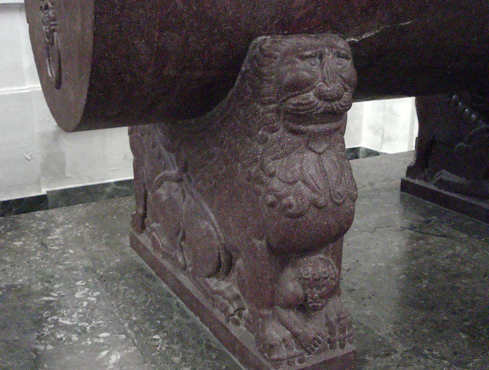 Frederick II's sarcophagus (Palermo Cathedral)